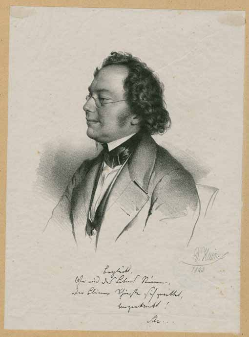 The bavarian scientist Karl Emil von Schafhäutl (1803-1890)